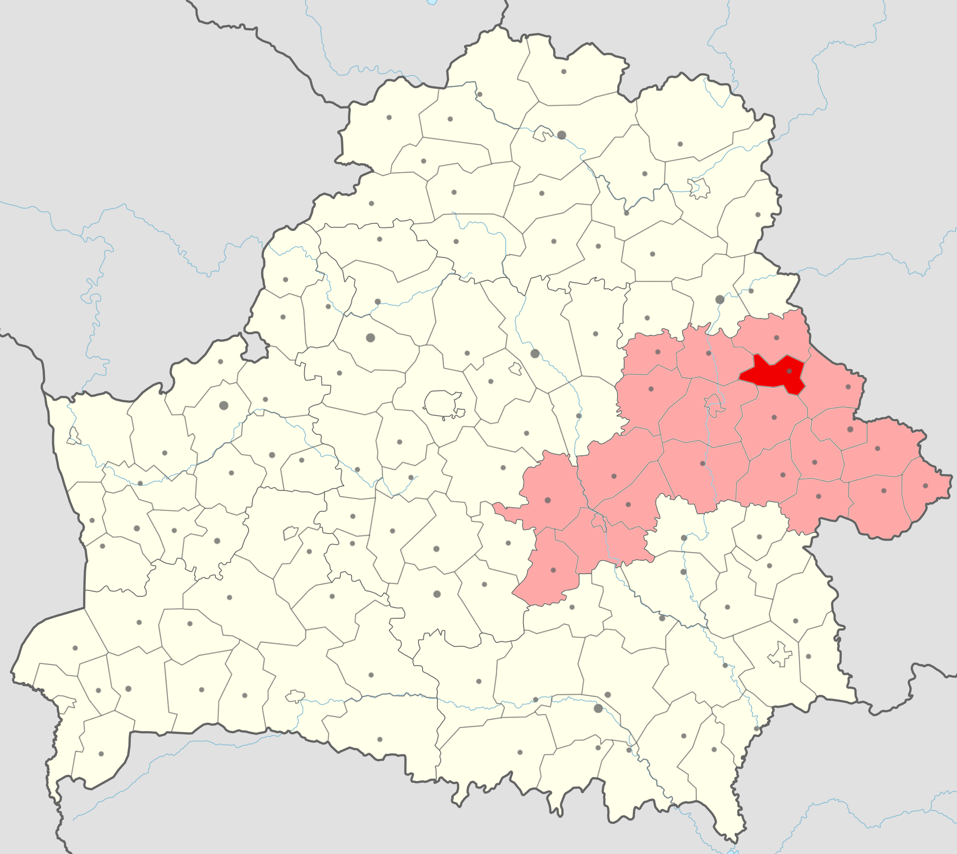 Location of Drybinski rajon (red) in Mahilioŭskaja voblasć (light red) in Belarus.